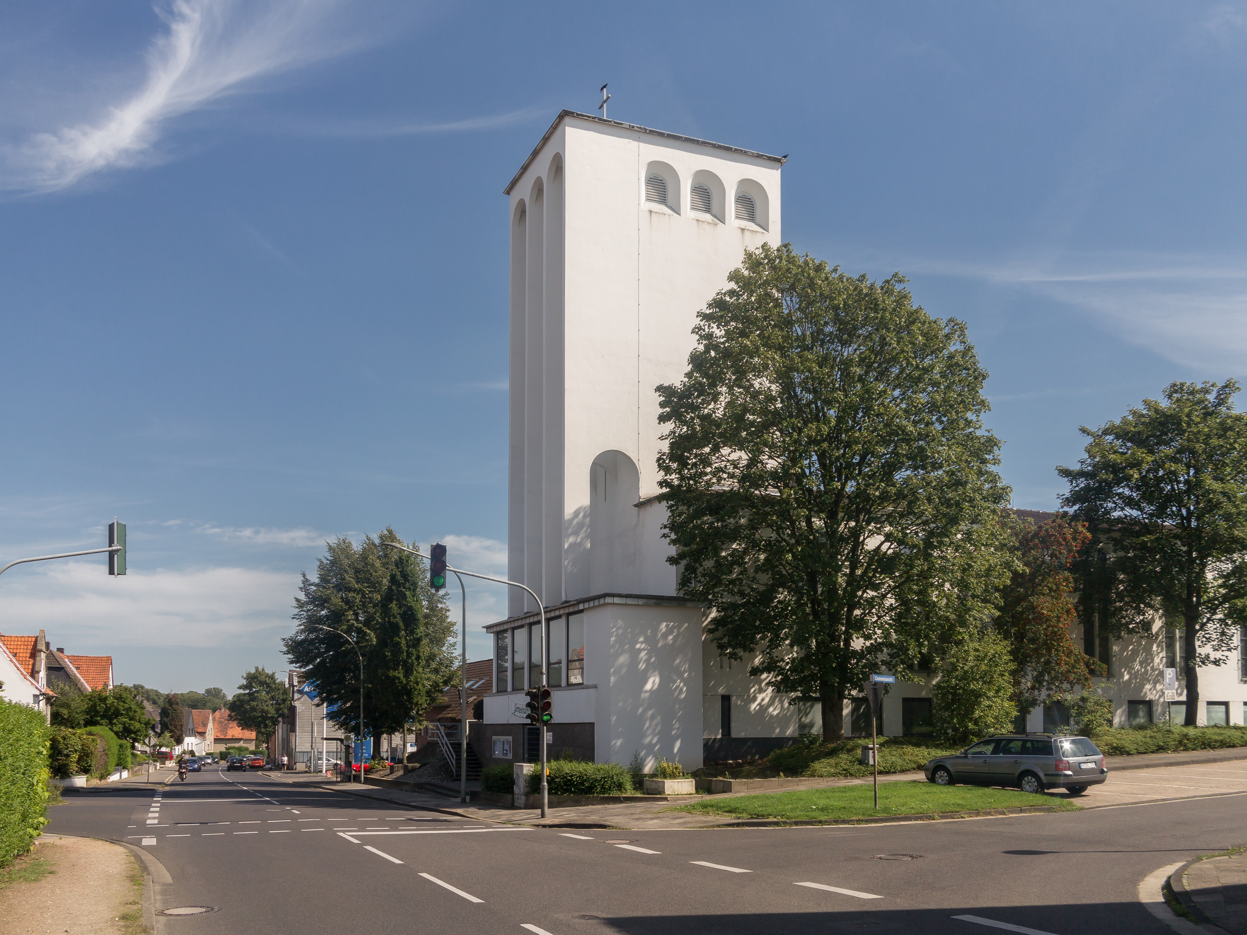 Übach, church: die Erlöser Kirche